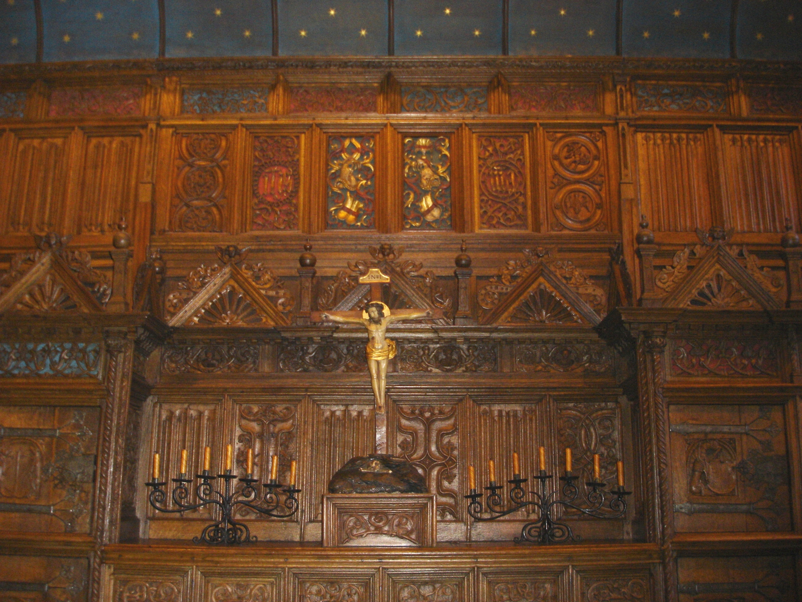 The center of the northwall in the "Friedenssaal" (hall of peace) in the historical city hall in Münster, Westphalia, Germany